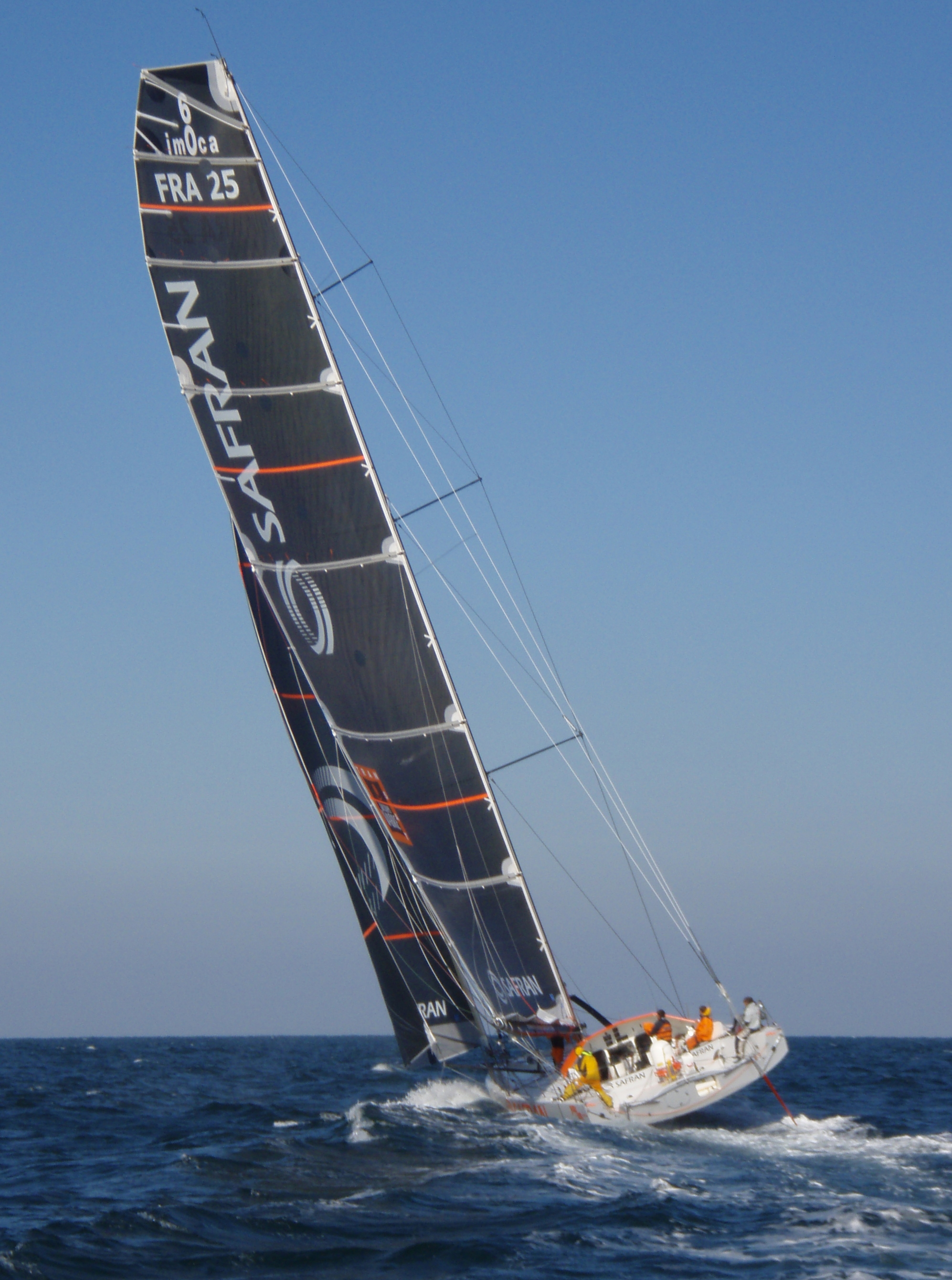 SAFRAN, a 60' IMOCA monohull (built 2007), under medium wind in the Quiberon Bay (Brittany, France), on Saturday 20 October, 2007. Photo by Guillaume Le Masson & Jerome Samson